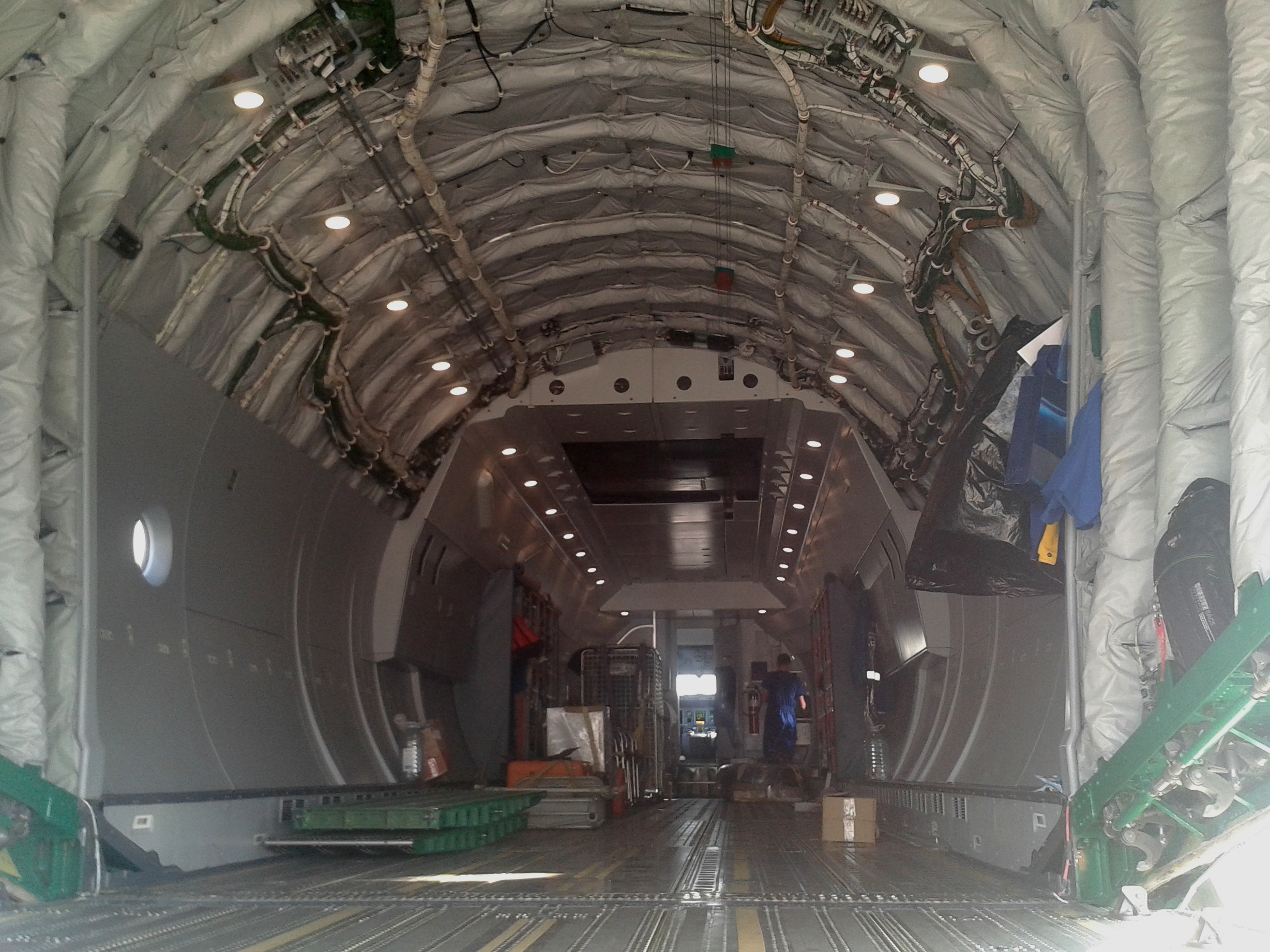 cargo hold of the Antonov An-178